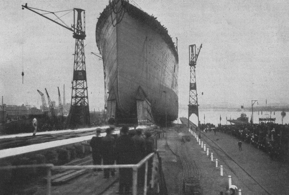 The launching of Columbus (Norddeutscher Lloyd) at Schichau shipyard, Danzig.